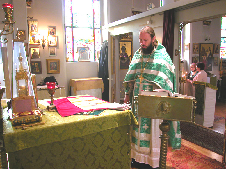 Divine Liturgy at Holy Protection Church in Düsseldorf